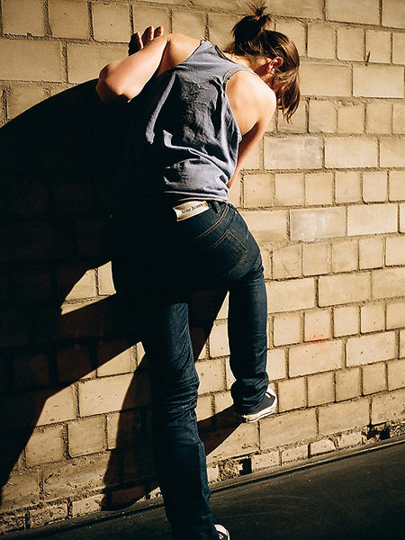 Actress Cornelia Dörr in "Othello–c´est qui"